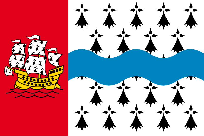 Flag of Nantes Country (Brittany)